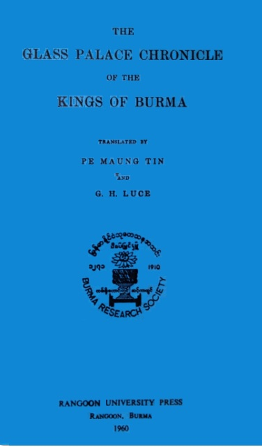 Book cover of the 1960 edition of the Glass Palace Chronicle, English translation of Hmannan Yazawin to the Pagan Dynasty